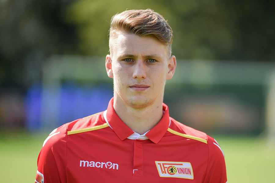 Teamfoto 2016/17